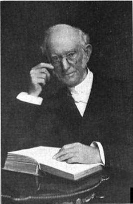 Photo of Robert Samuel Maclay